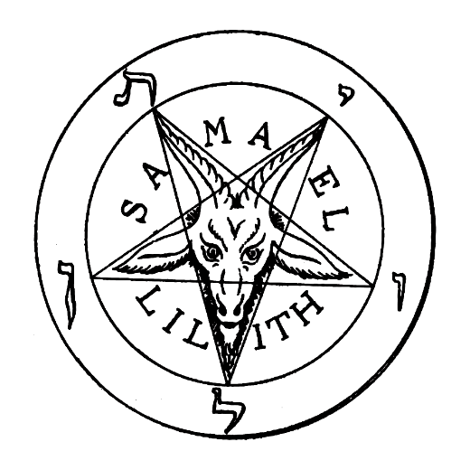 The original "Samael/Lilith" Pentagram.